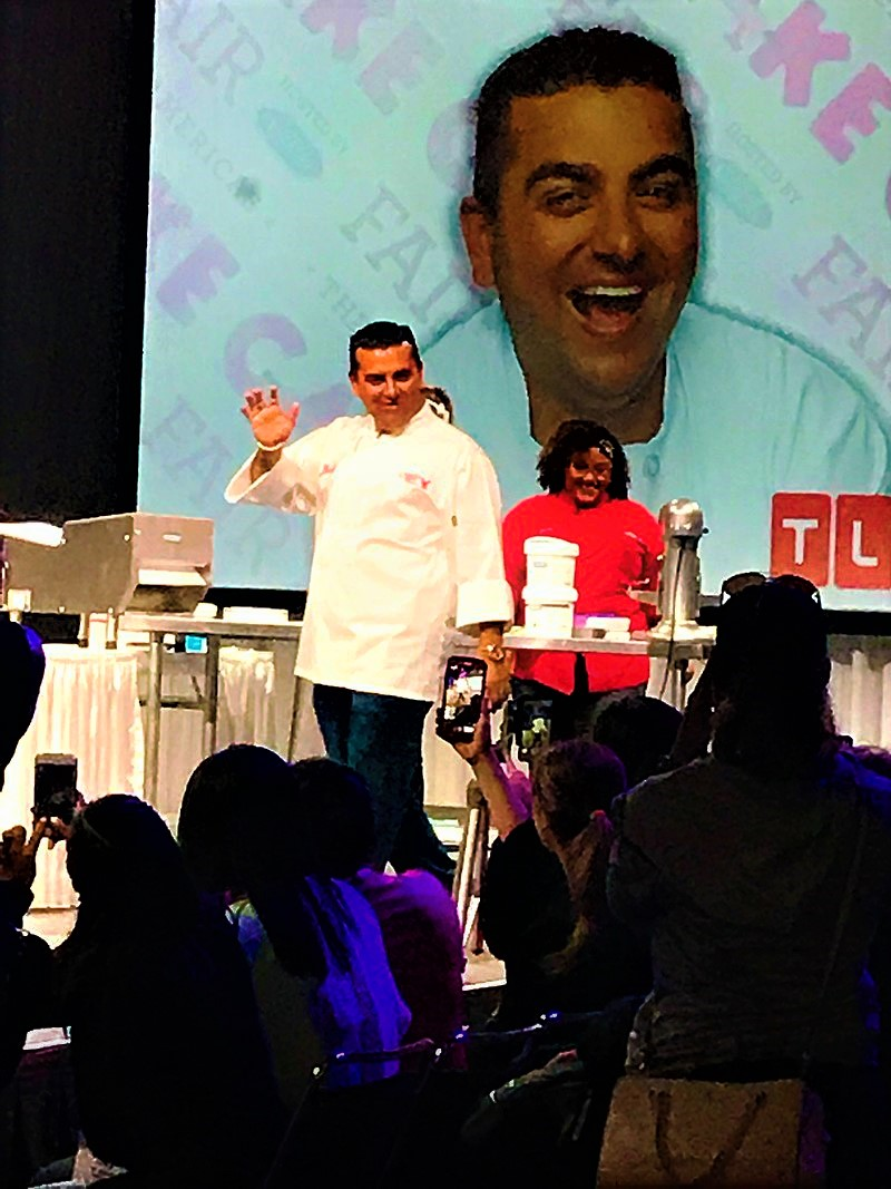 Buddy Valastro walks out on stage waving to fans at a Cake Fair in Orlando, FL. 2017